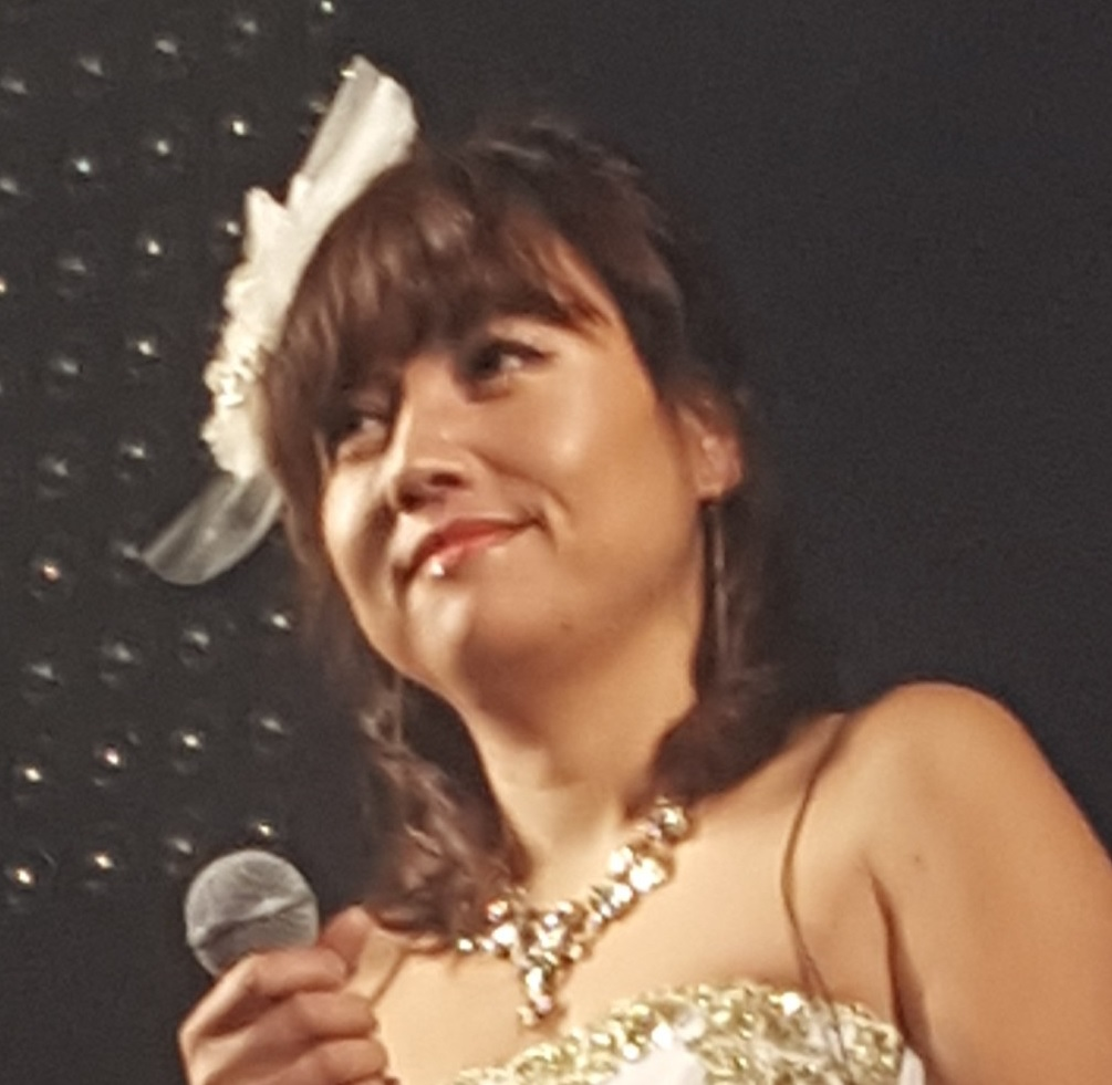 Yumi Matsuzawa performing at Anime Friends 2016